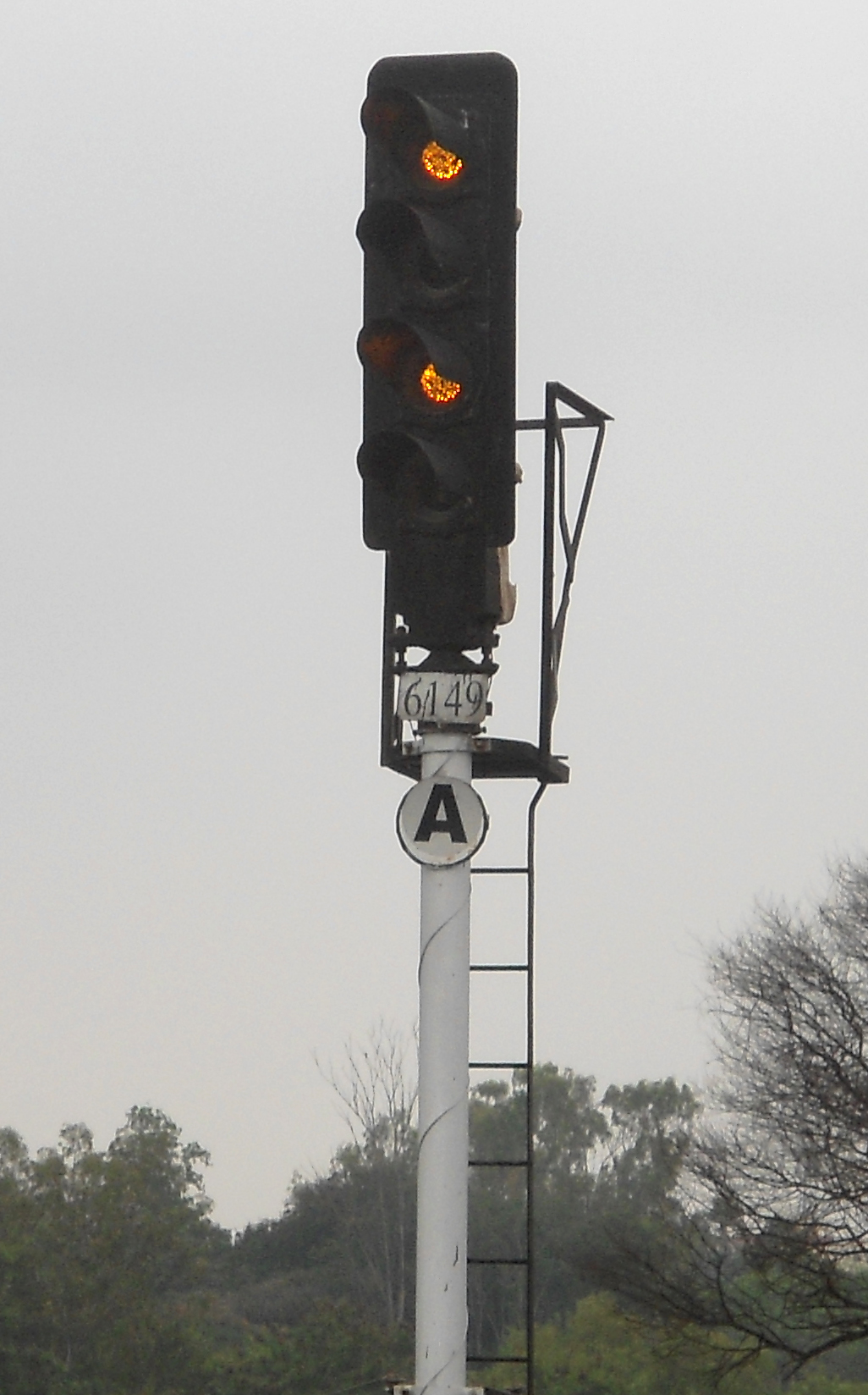 Railway Signal Post at Safilguda Railway station